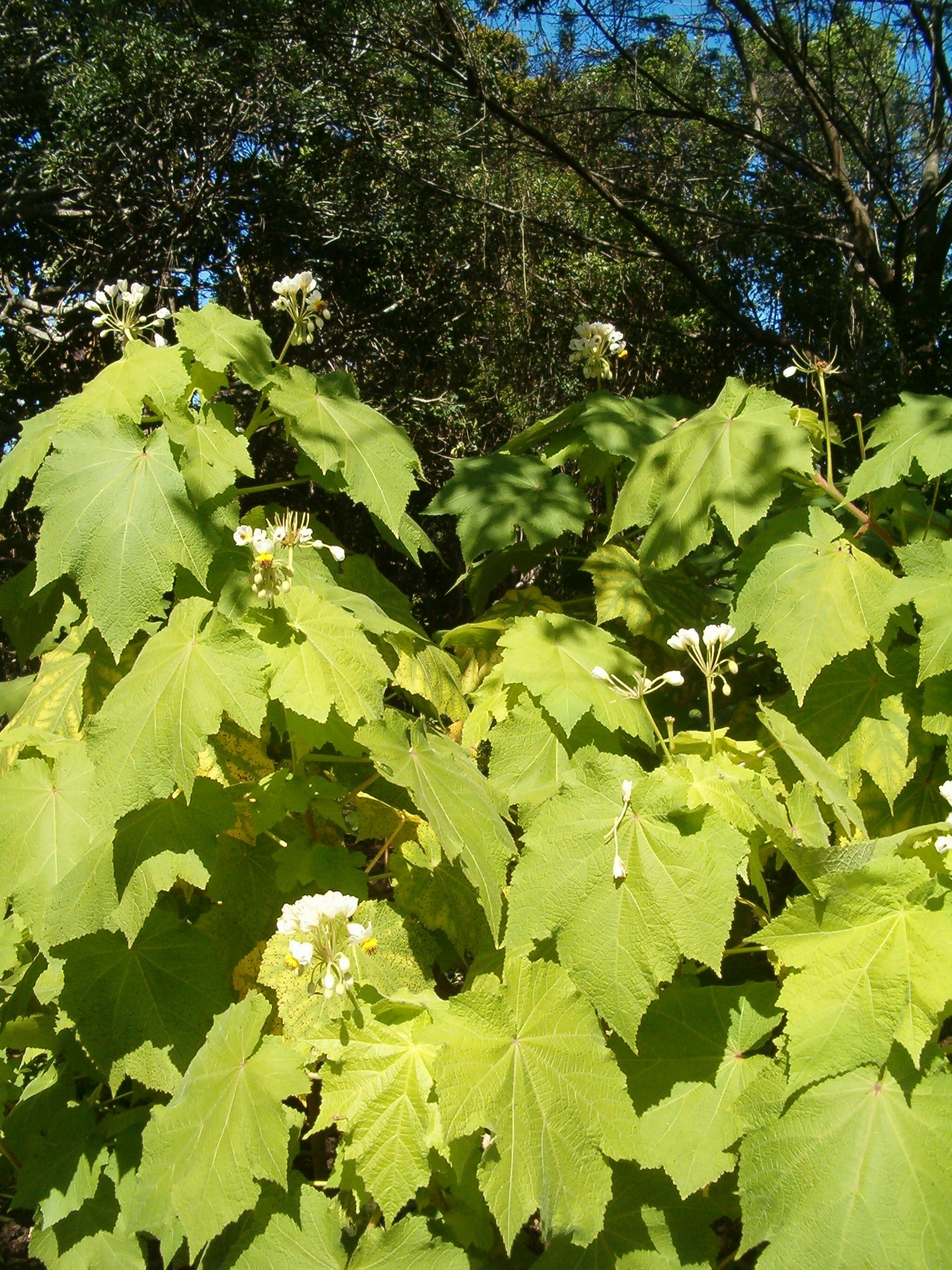 At Kirstenbosch National Botanical Gardens Species Sparrmannia africana